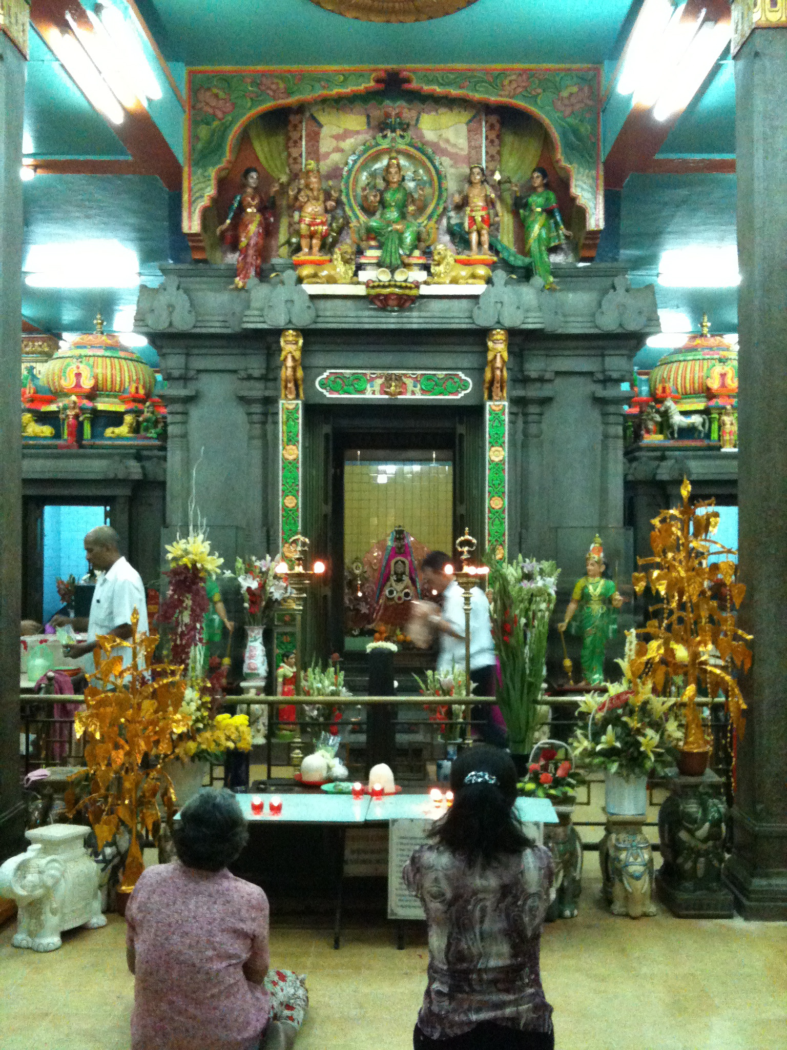 Locals worship in front of the central shrine at the Sri Mariamman Hindu Temple in Ho Chi Minh City, Vietnam.